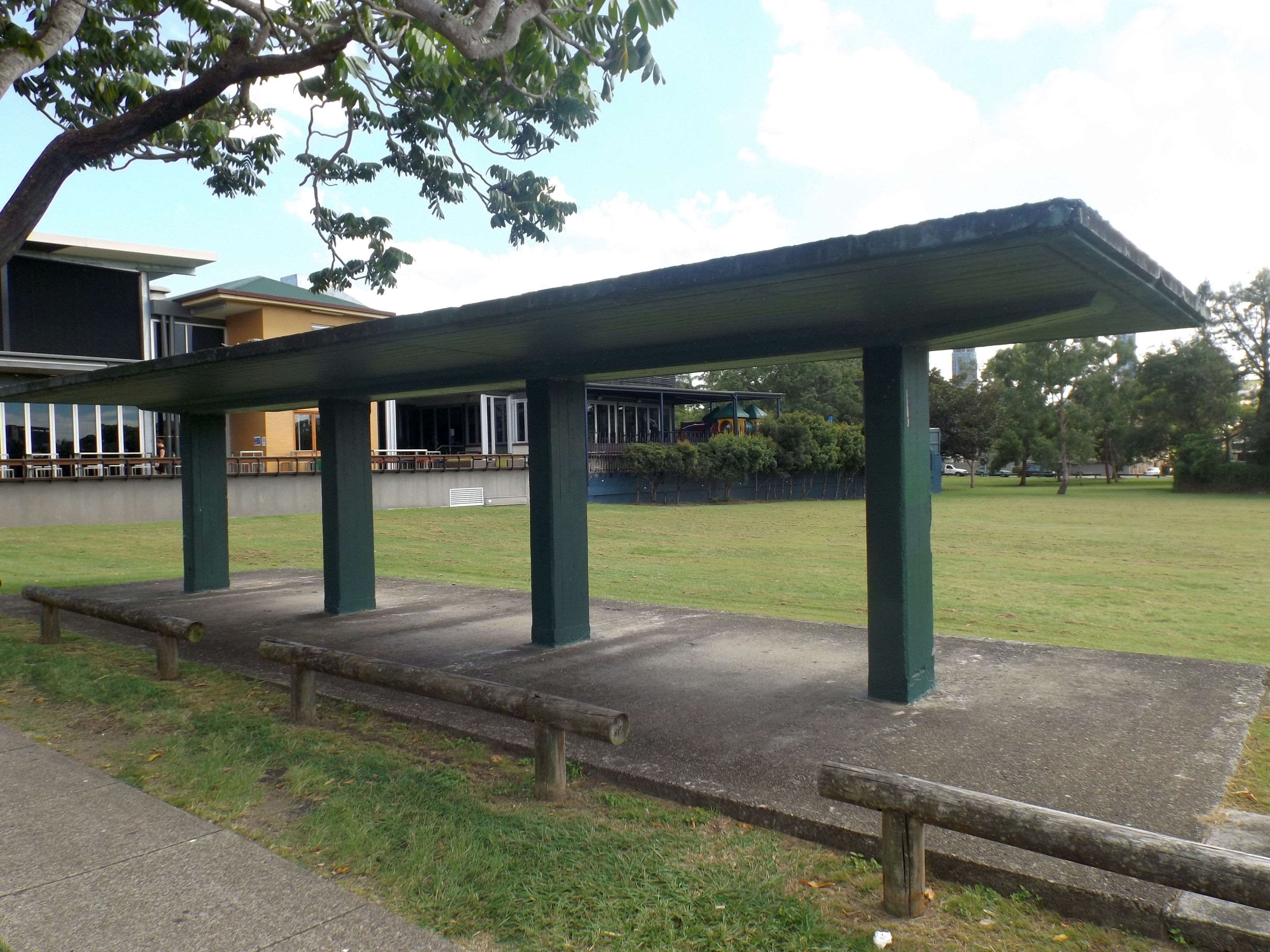 Photo of the Raymond Park (West) Air Raid Shelter at Kangaroo Point, Brisbane, Queensland, Australia.